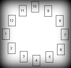 Horoscope spread